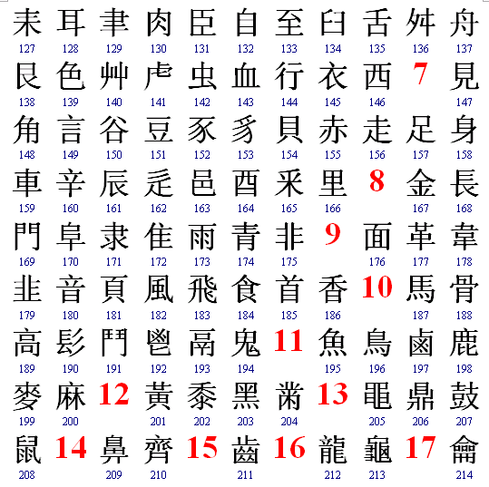 Chinese Radicals